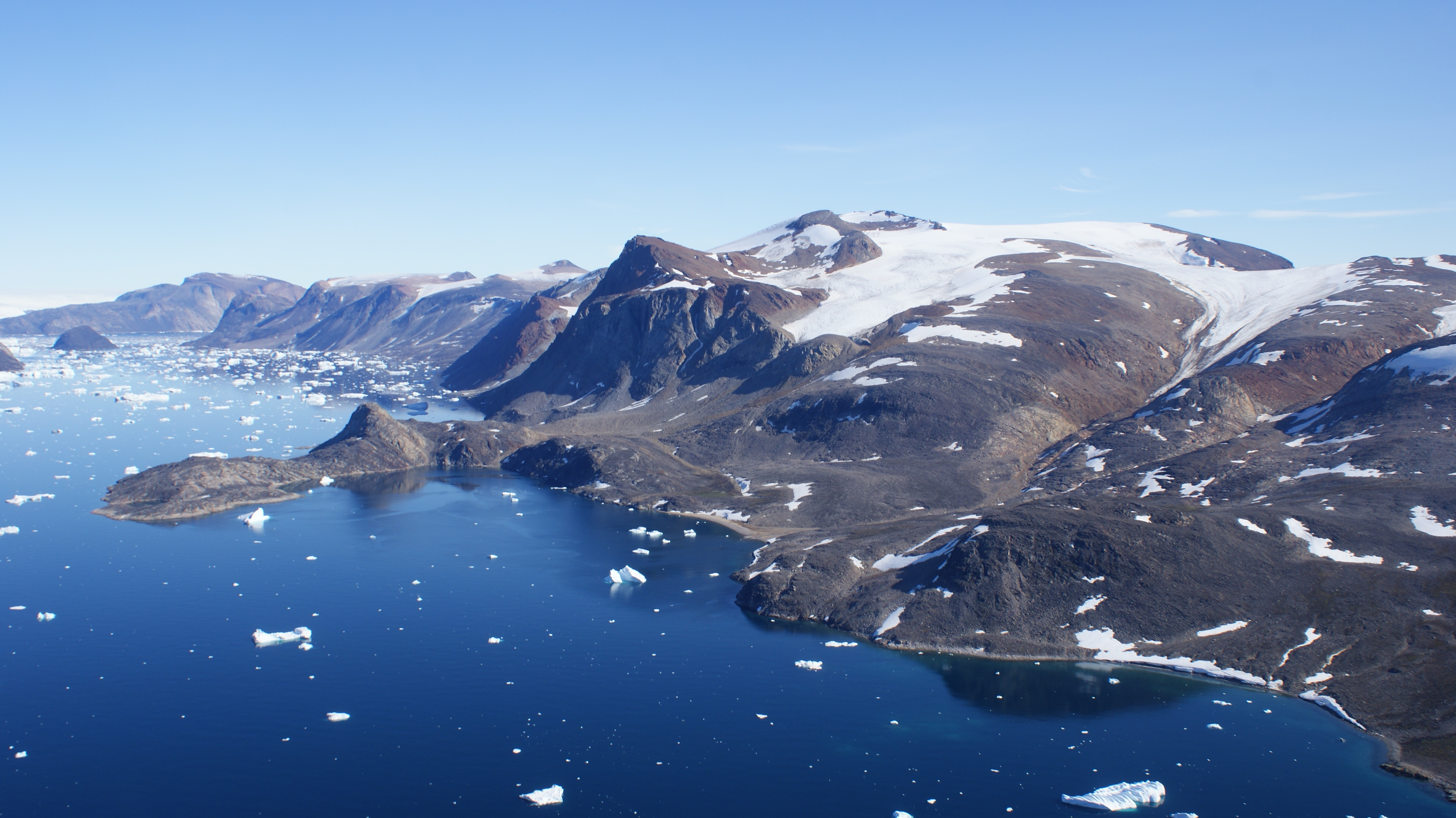 Aerial view of the northern coast of Kiatassuaq Island, Upernavik Archipelago, Greenland. Photographed from the Air Greenland Bell 212 during the Kullorsuaq-Nuussuaq flight.